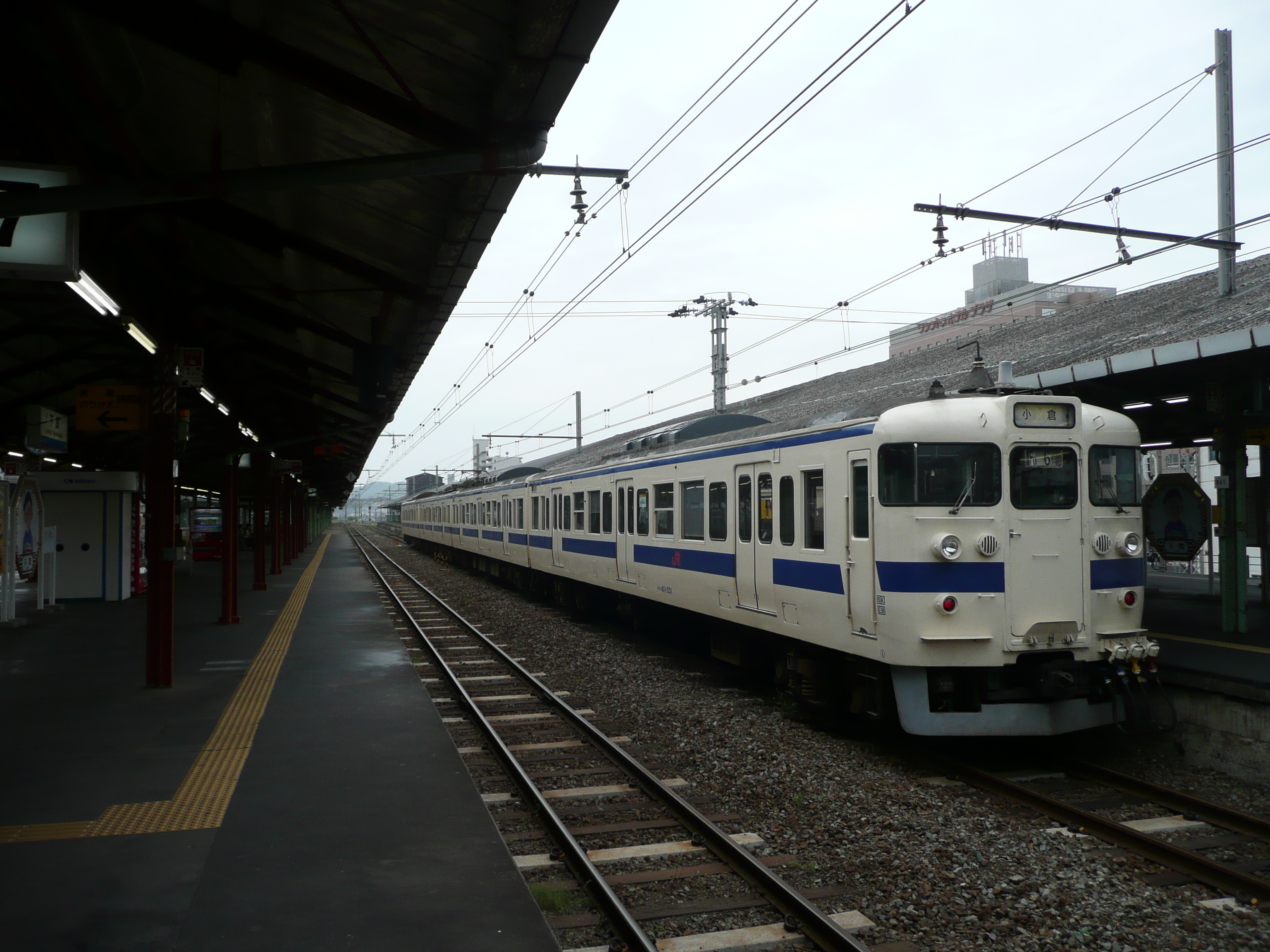 下関駅のホーム